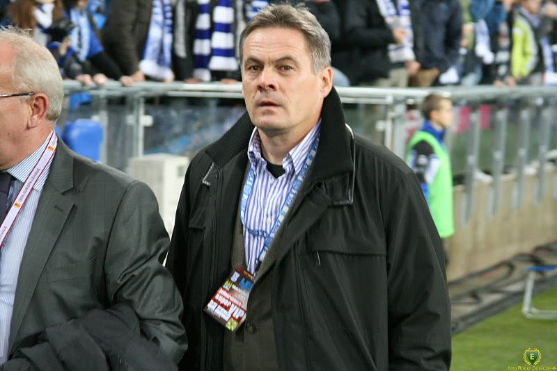 Jacek Zieliński, Lech Poznań coach from 2009 to 2010.